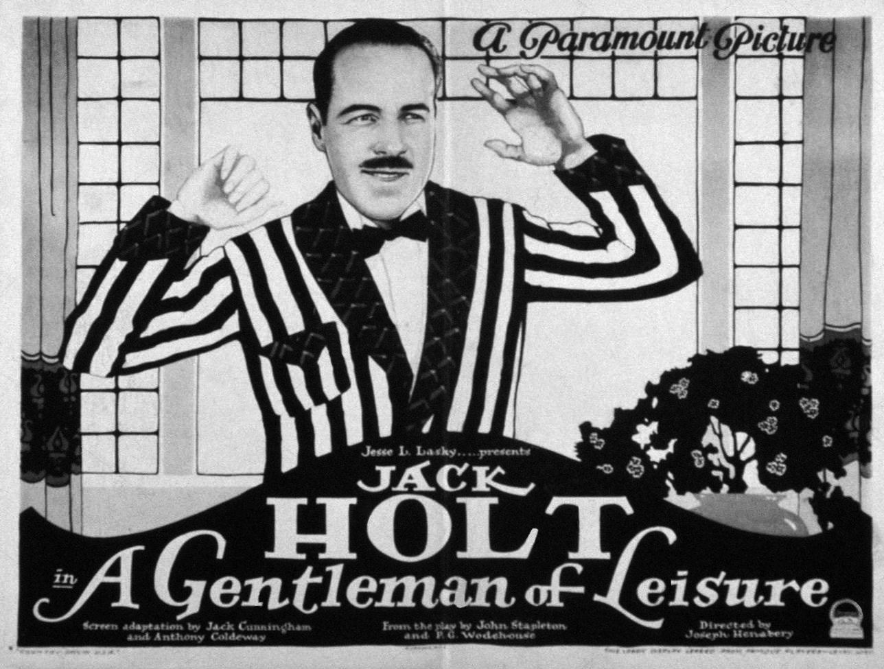 Lobby card for the 1923 film A Gentleman of Lesiure. There are no copyright marks. At bottom left is Country of origin USA. At bottom right is This lobby display leased from Famous Players Lasky Corp.